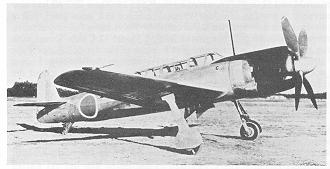 Nakajima C6N Saiun ('Painted Cloud') "Myrt". The Nakajima C6N Saiun was a carrier-based reconnaissance aircraft used by the Imperial Japanese Navy Air Service in World War II.